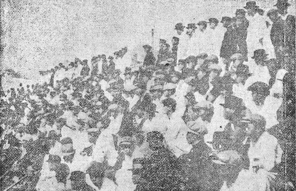 Baseball at the 1921 Korean National Sports Festival.